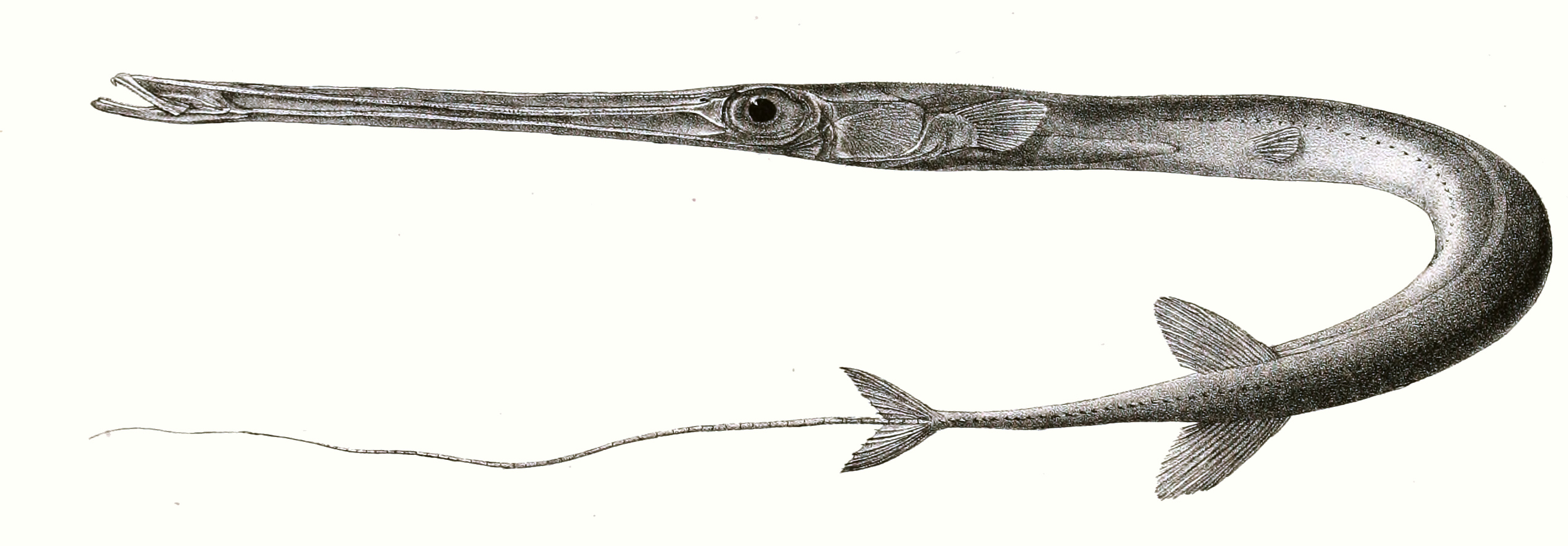 The species names / identity need verification. The original plates showed the fishes facing right and have been flipped here. Mugil oligolepis ? Fistularia serrata in the original source.